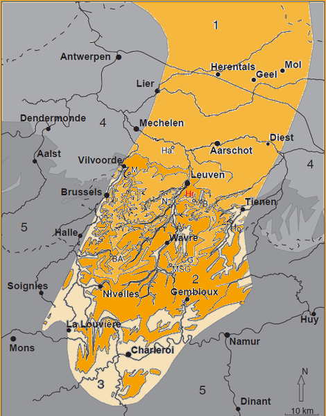 Occurrence of the Brussels Sands in Central Belgium. 1 = subcrop; 2 = outcrop; 3 = eroded outcrop; 4 = no Brussels Sands, with younger cover; 5 = no Brussels Sands, older outcrops. Brussels Sands basin = 1 + 2 + 3. Localities mentioned in picture : Ar: Archennes; B: Bierbeek; BA: Braine-l’Alleud; CG: Chaumont-Gistoux; Ha: Haacht; Ho: Hoegaarden; Hr: Haasrode; M: Machelen; MSG : Mont-Saint-Guibert; N: Neerijse.